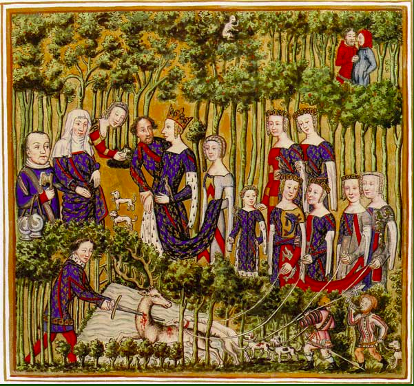 Homage du comte de Clermont en Beauvaisis,a 17th ct. copy after an original burnt in a fire in 1737.During a hunt,Queen Jeanne de Bourbon meets her mother,the Duchess Isabelle de Valois (in widow's weeds).Jeanne's brother Duke Louis II,kills the stag